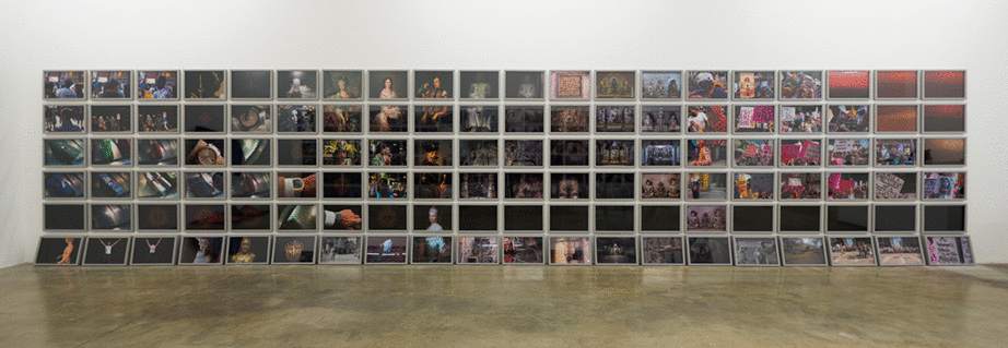 grid of 160 photographs